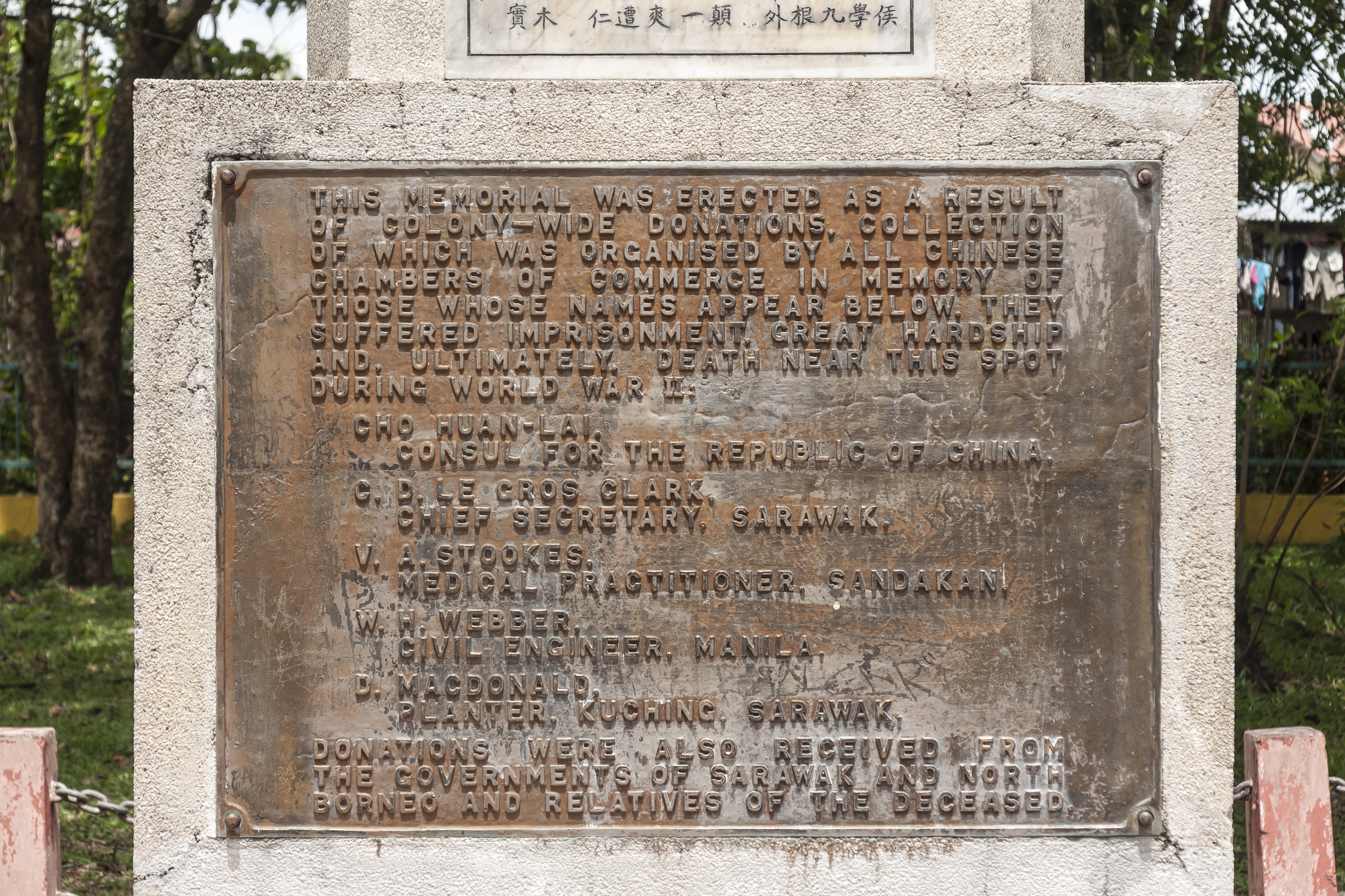 Keningau, Sabah: Cho Huan Lai Memorial